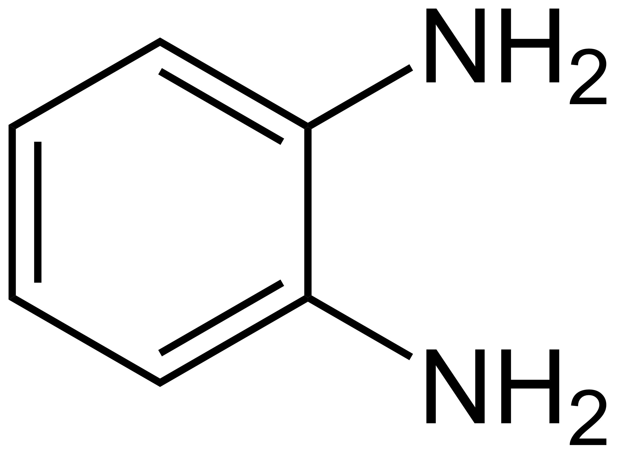 Chemical structure of o-phenylenediamine